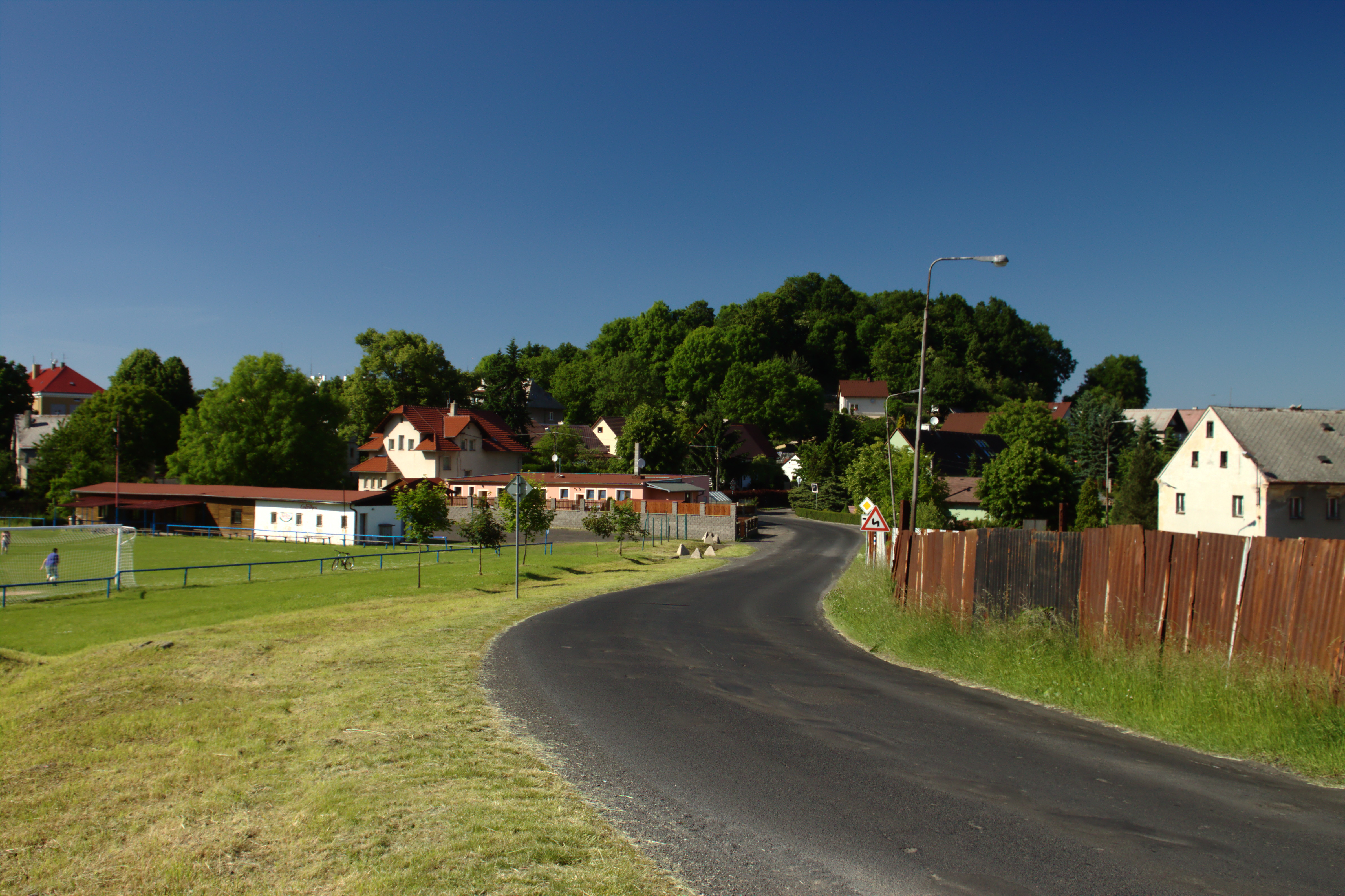 Buildings and a football field (on the left) in the town of Malečov, Ústí Region, CZ